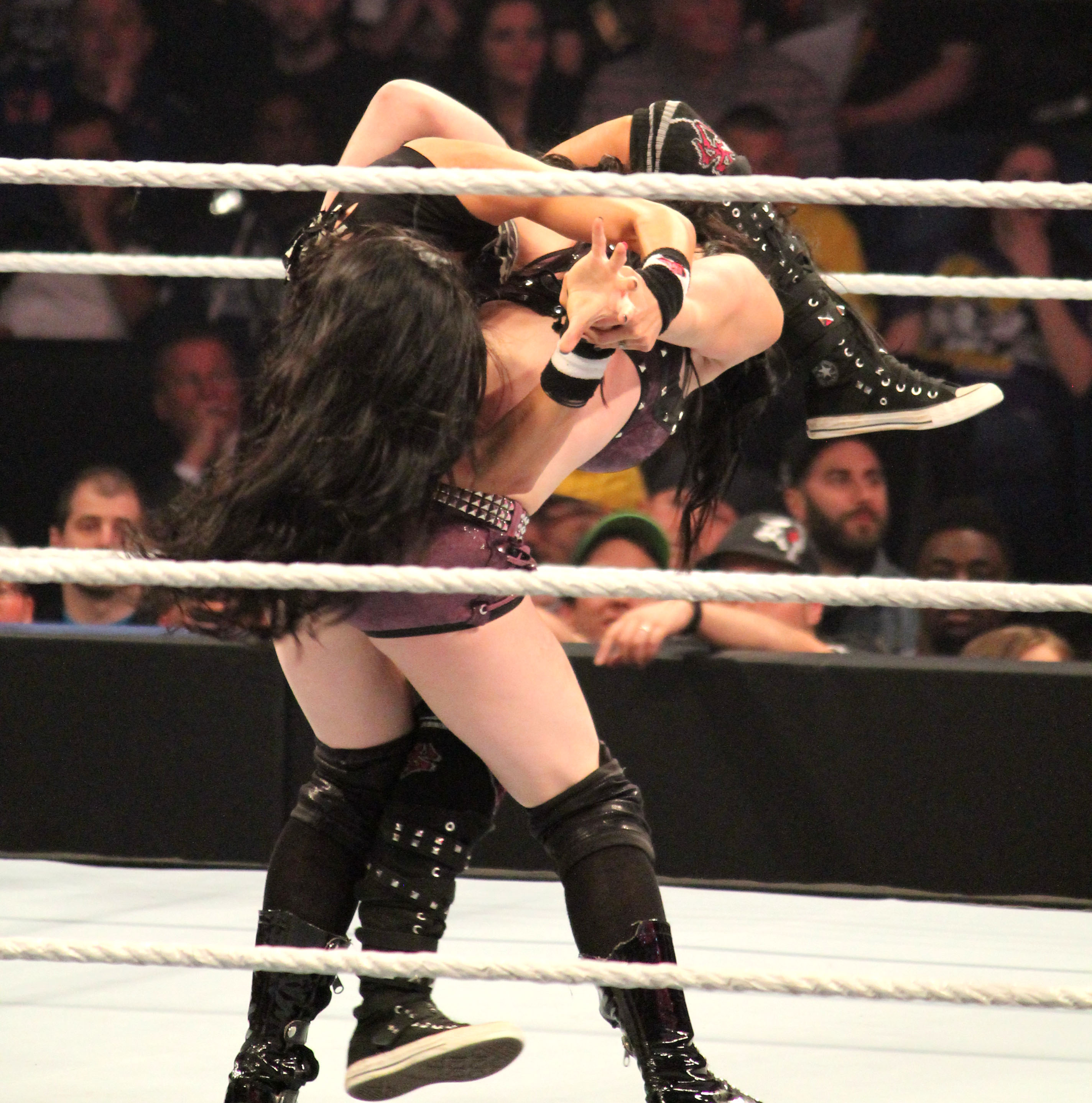 AJ Lee applying her Black Widow submission hold to Paige at a WWE Raw event on April 7, 2014. Cropped and boosted contrast from the original.